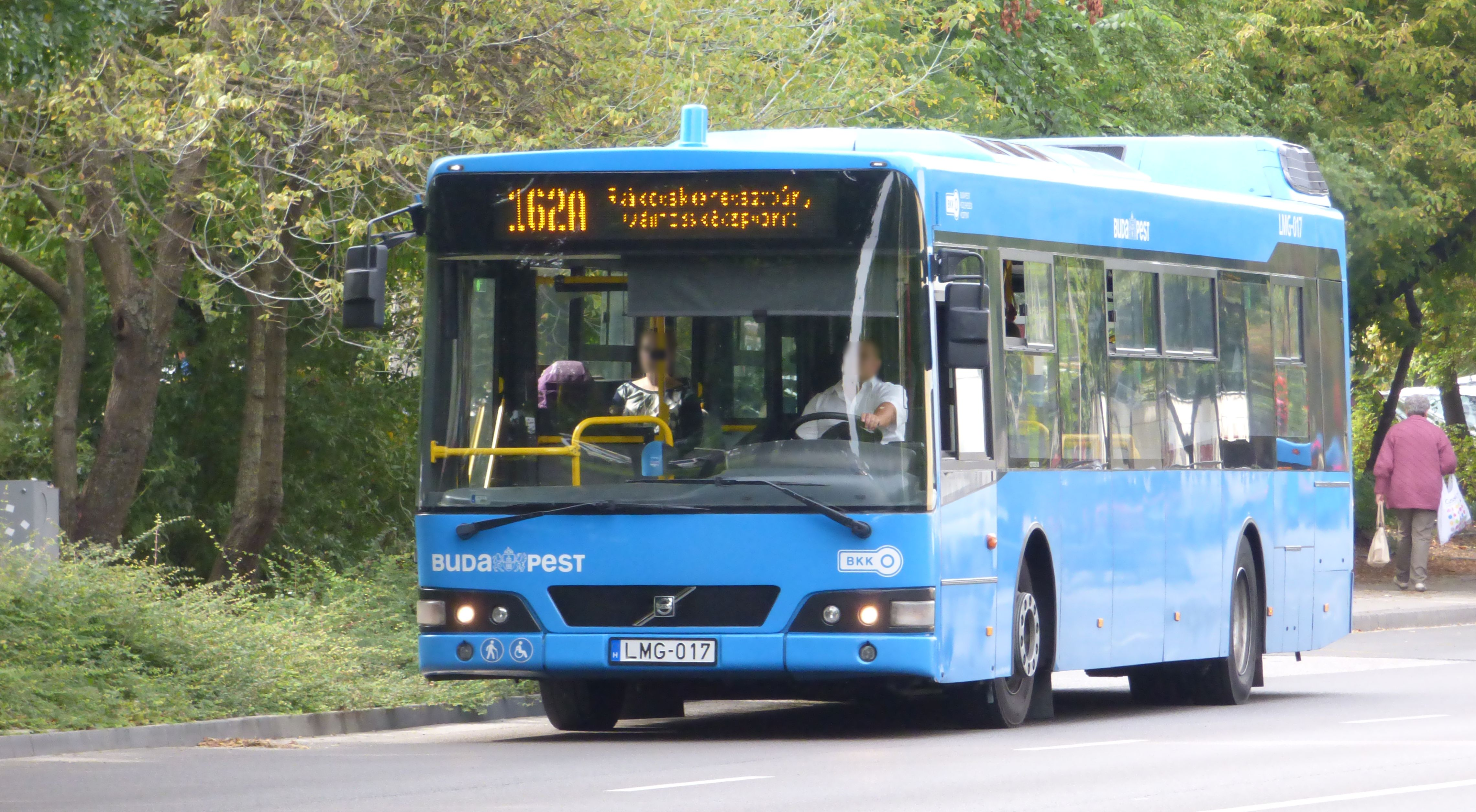 Volvo-Alfa Cívis 12 bus, Budapest, bus line 162A (reg. LMG-017)